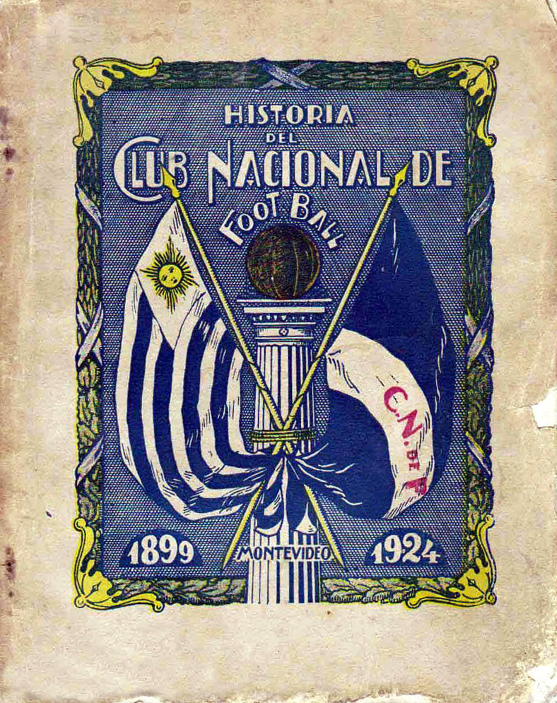 Cover of Historia del Club Nacional de Foot-Ball, 1899-1924 dedicated to the Uruguayan football team.